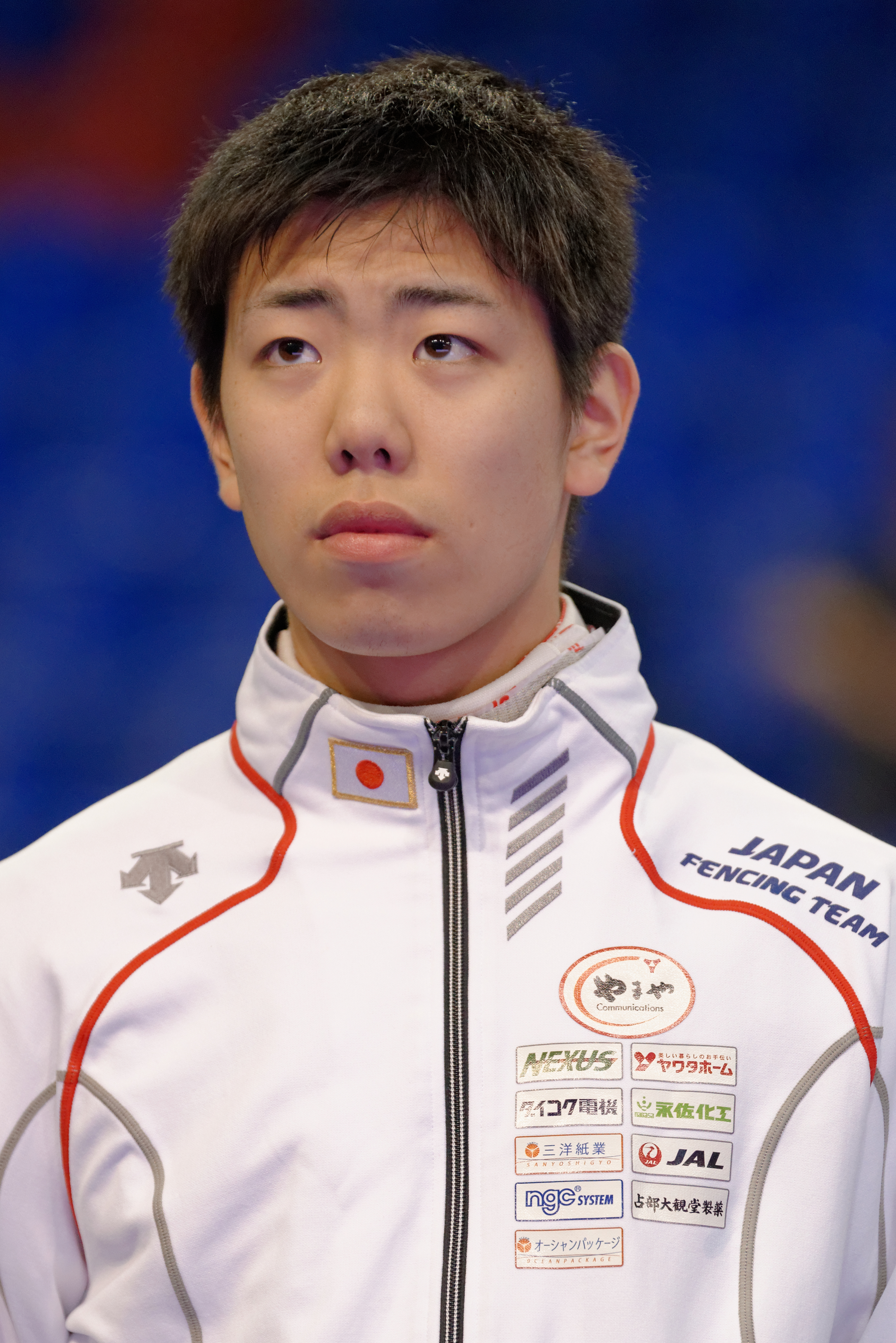 Japan's Shikine Takahiro at the individual event of the 2015 Challenge International de Paris, a men's foil World Cup competition.